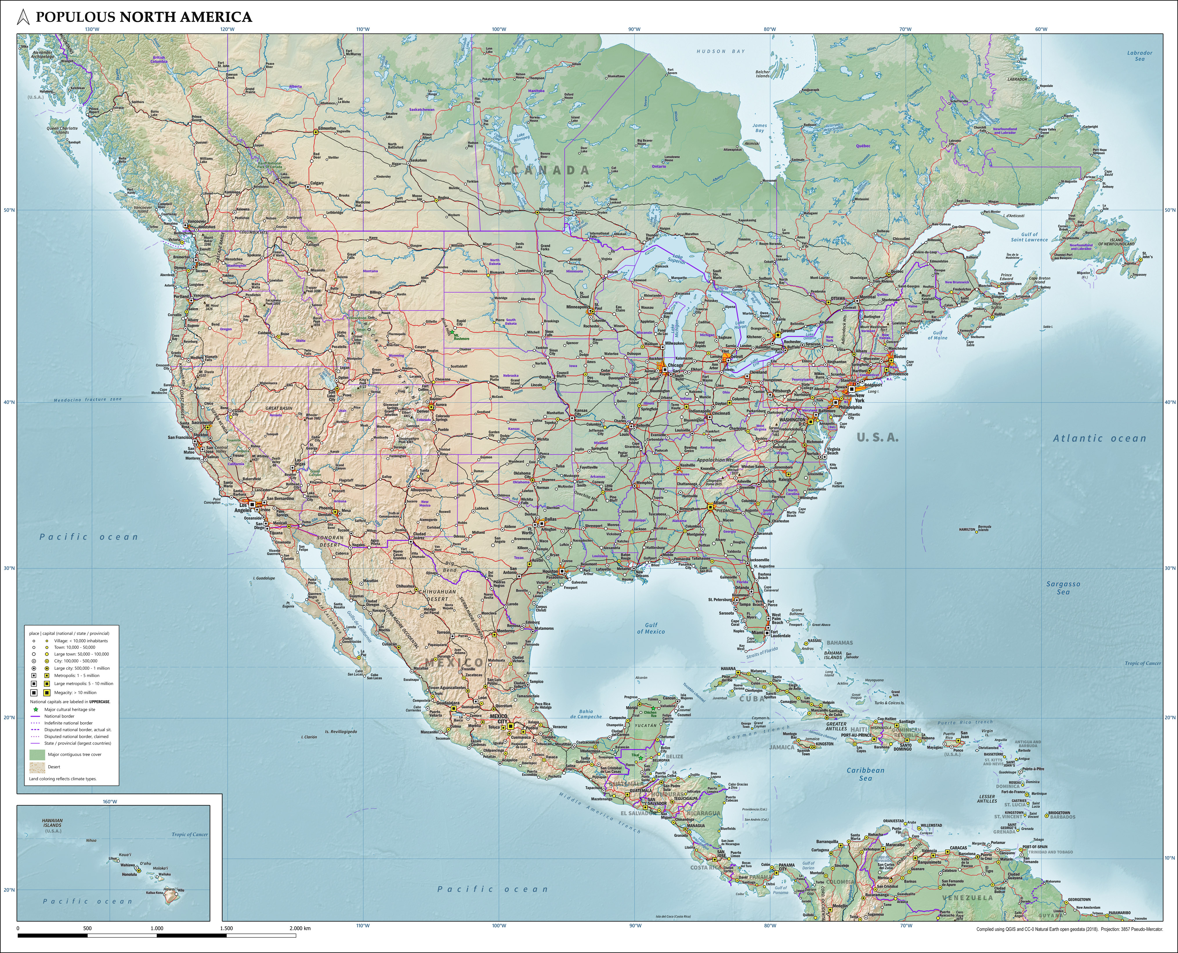 Map of the populous part of North America showing physical, political and population characteristics, with legend, in Mercator projection, as per 2018. Compiled using QGIS and CC-0 Natural Earth geodata.